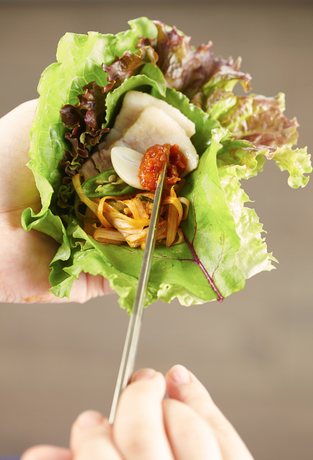 Korean vegetable wraps